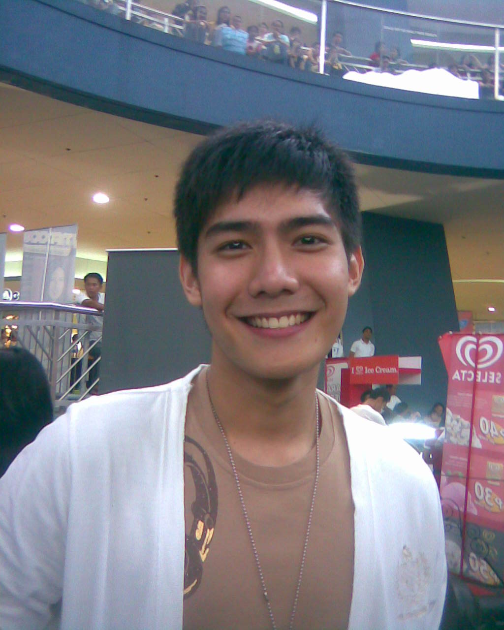 The person in this photo is Robert Marion Domingo. This photo was taken on December 5, 2009 at the SM Mall of Asia Philippines.